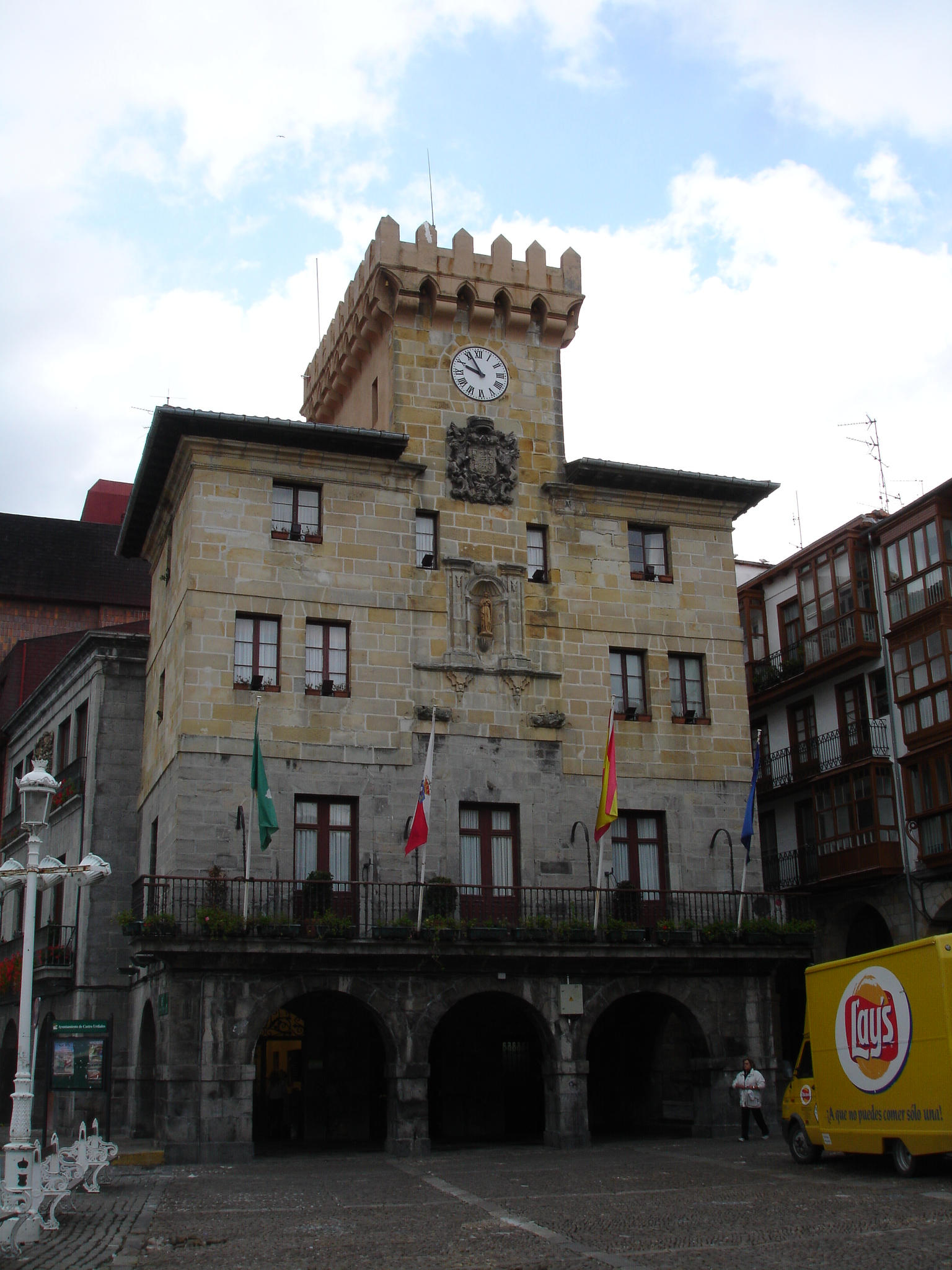 Façade of the Castro-Urdiales (Spain) Town Hall